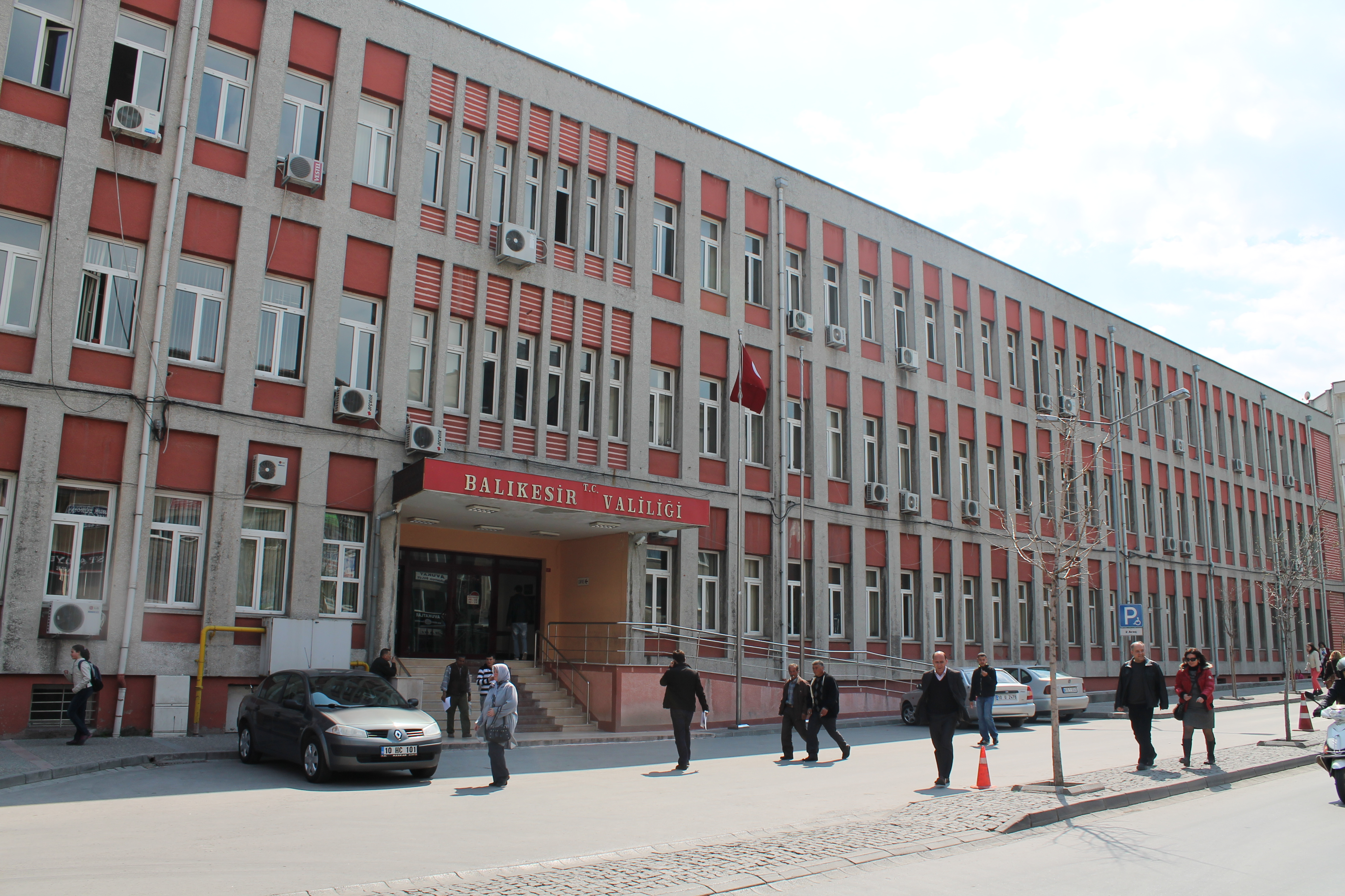 Balıkesir governor